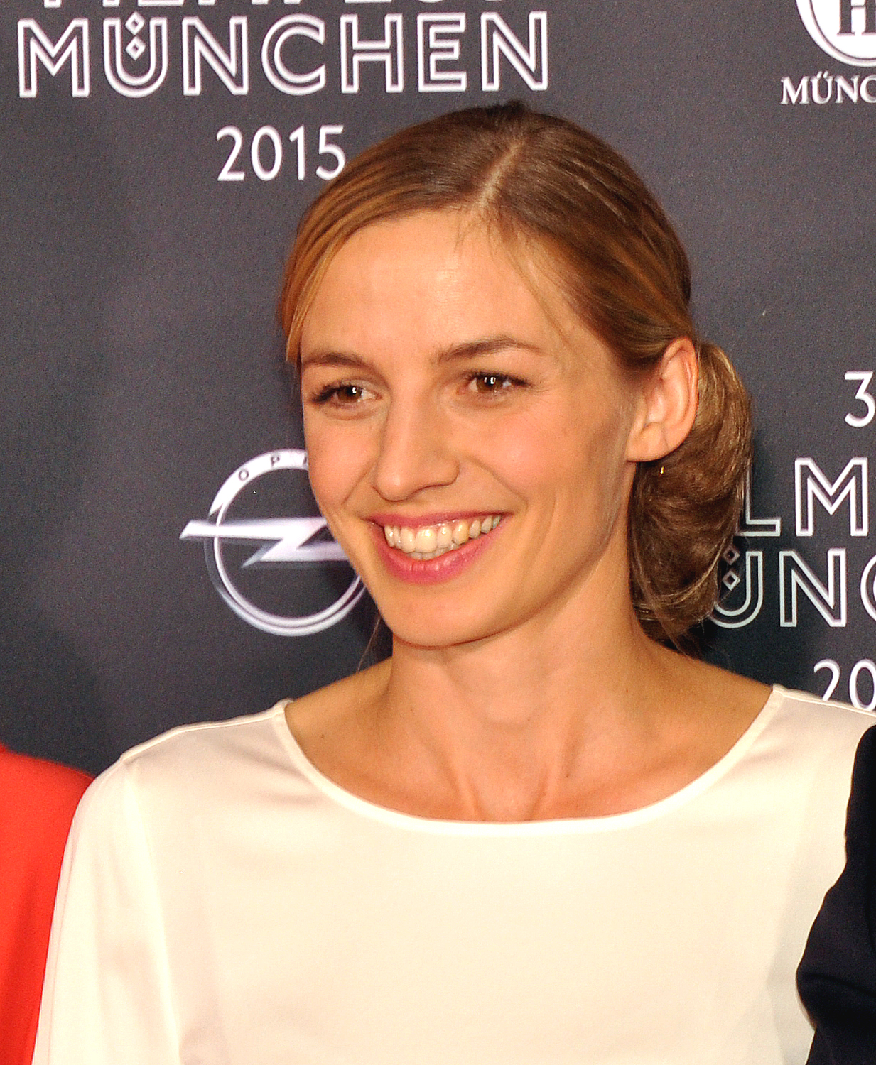 Annika Blendl at Munich Filmfestival 2015 opening party